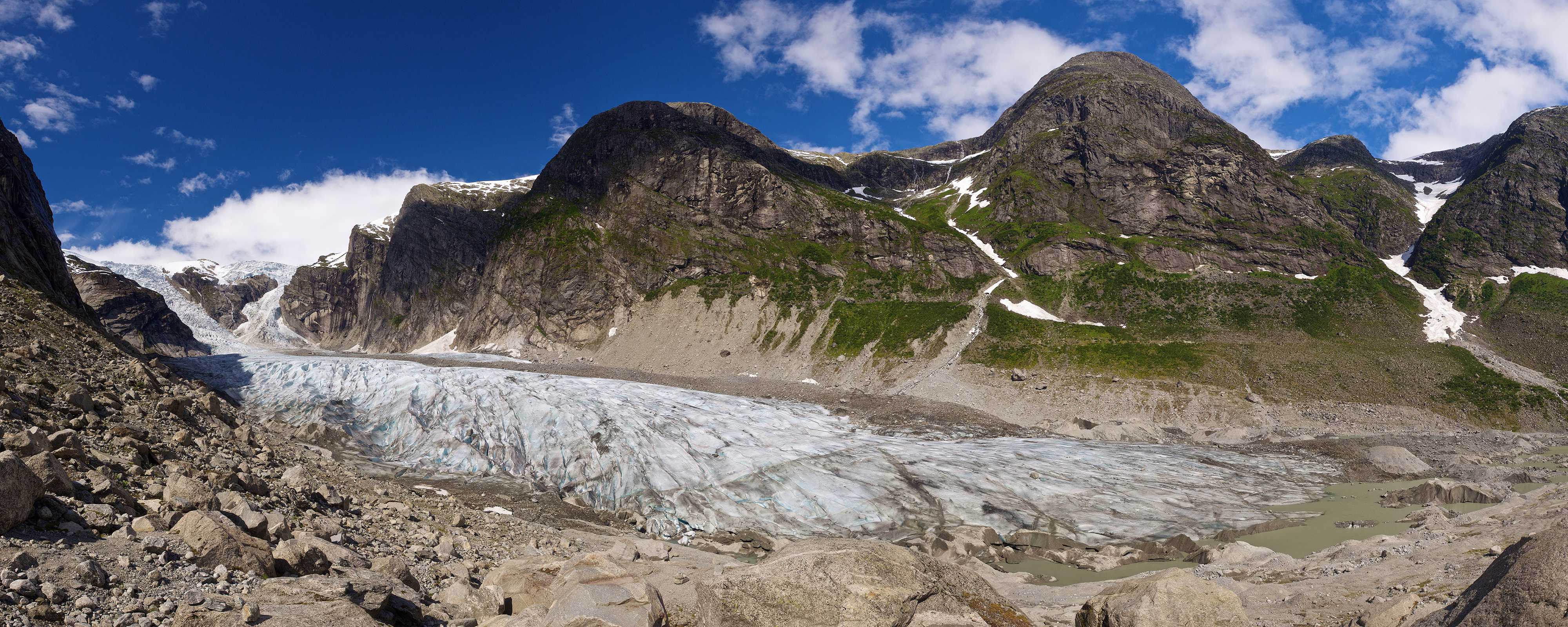 Austerdalsbreen, one of the outlet glaciers of the Jostedalsbreen, Sogn og Fjordane, Norway